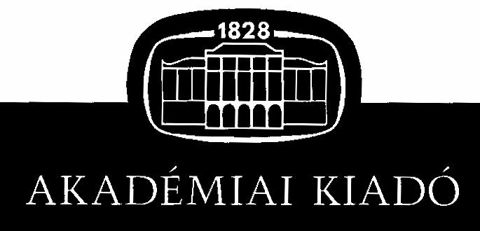 Logo of the Hungarian publisher Akadémiai Kiadó